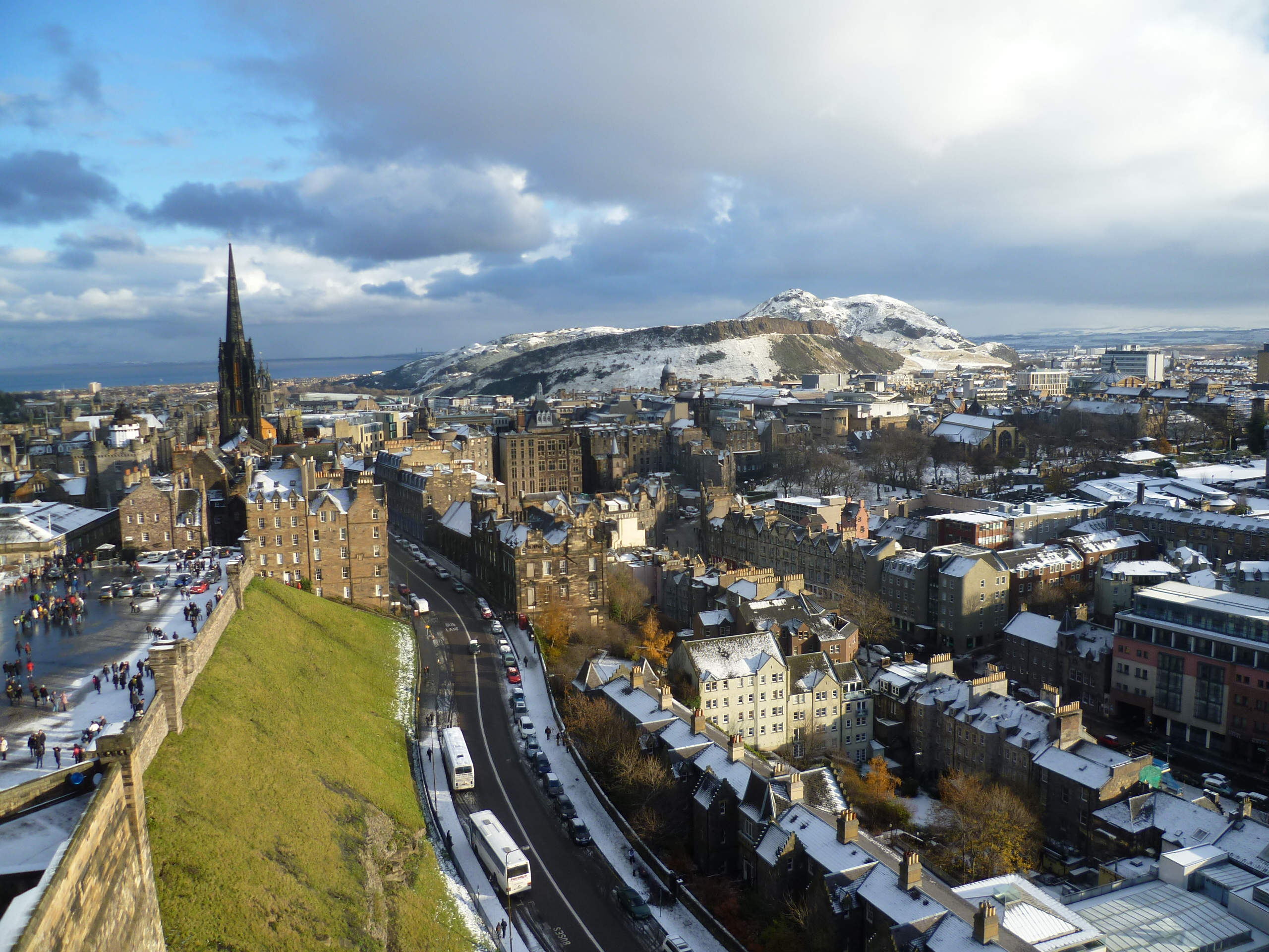 View of Edinburgh from the Palace block of Edinburgh Castle